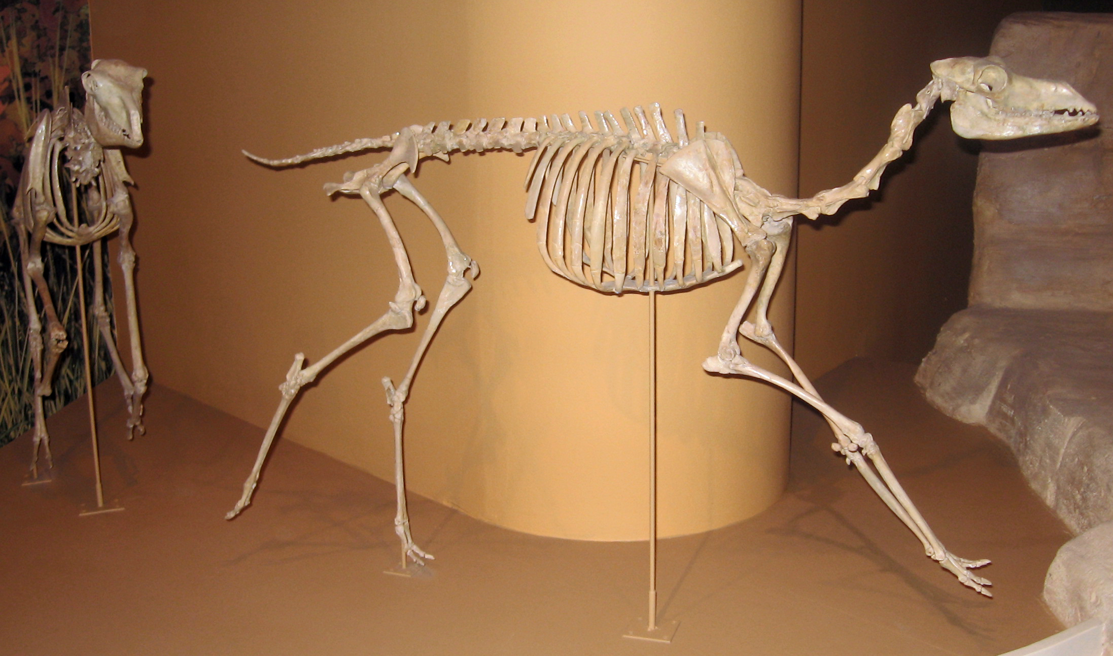 A Stenomylus?? a the Sam Noble Museum.